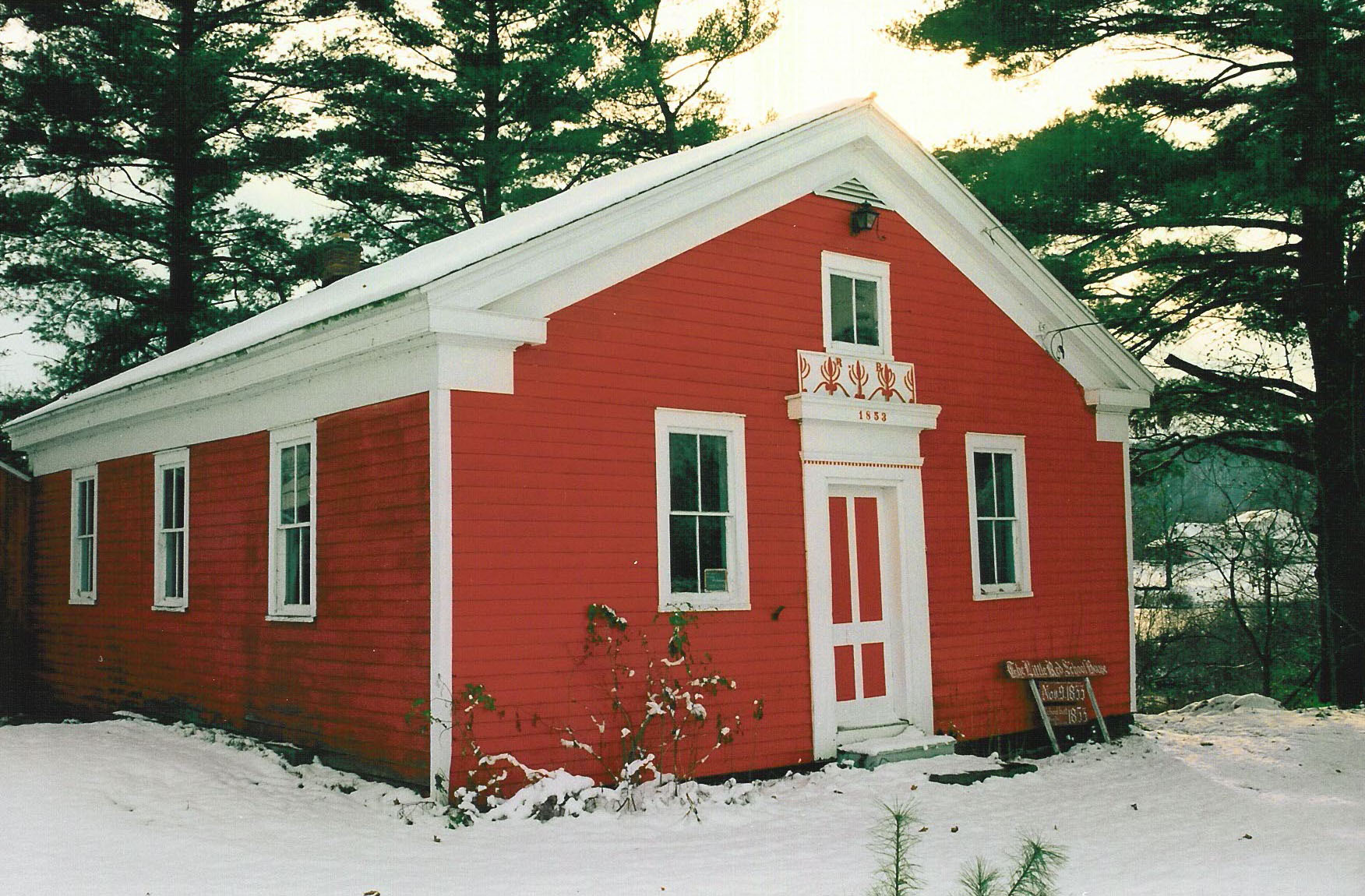 Little Red Schoolhouse in Clymer, NY. This school built in 1853 and remained in use for 86 years.